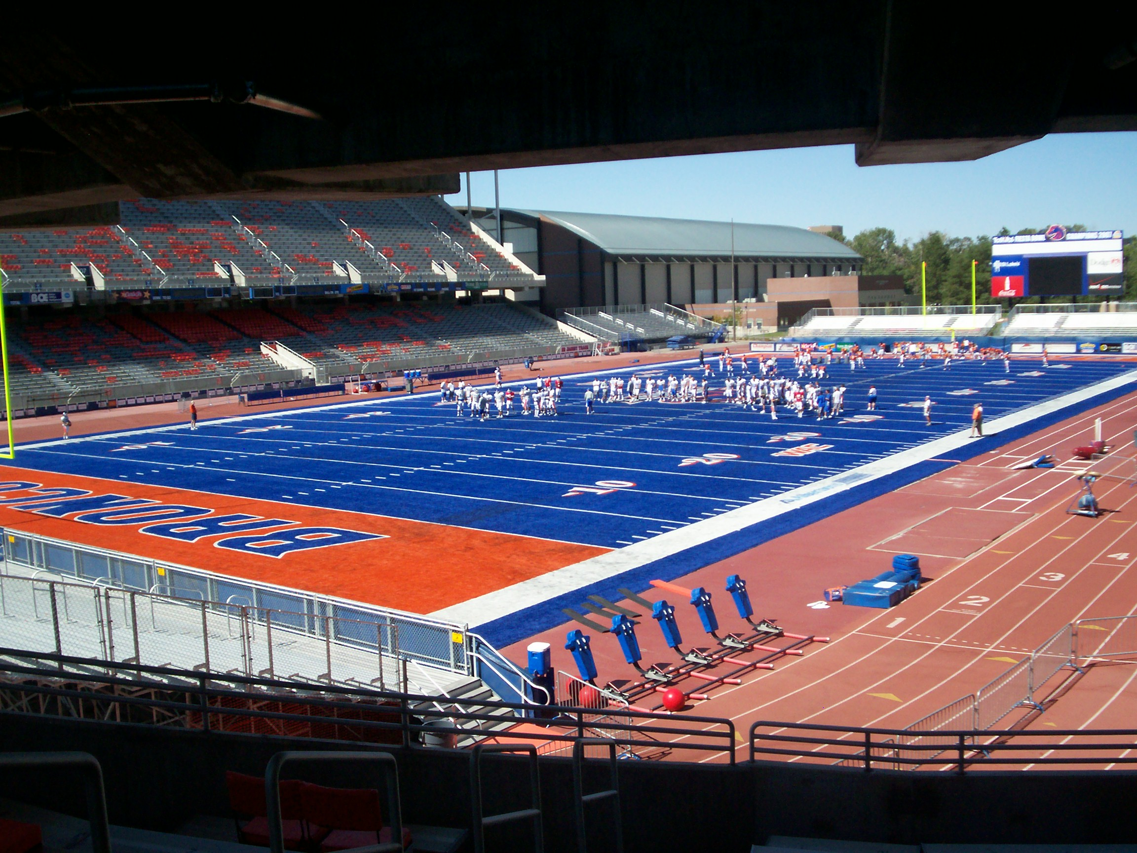 Smurf Turf in Bronco Stadium